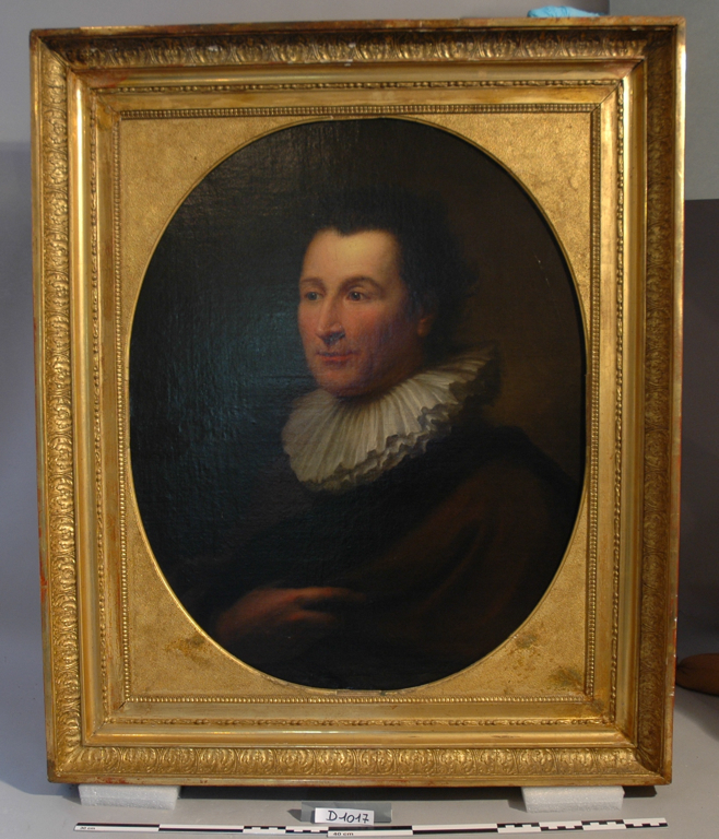 Jean-Alexis Grimou [Argenteuil [?], 1678? - Paris, 1733] : Man with a collar, first half of the 18th century, Argenteuil Museum.